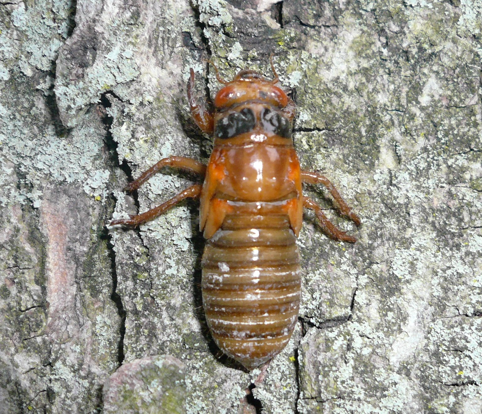 Brood XIII Magicicada septendecim 17-year cicada nymph instar, from the south suburbs of Chicago.